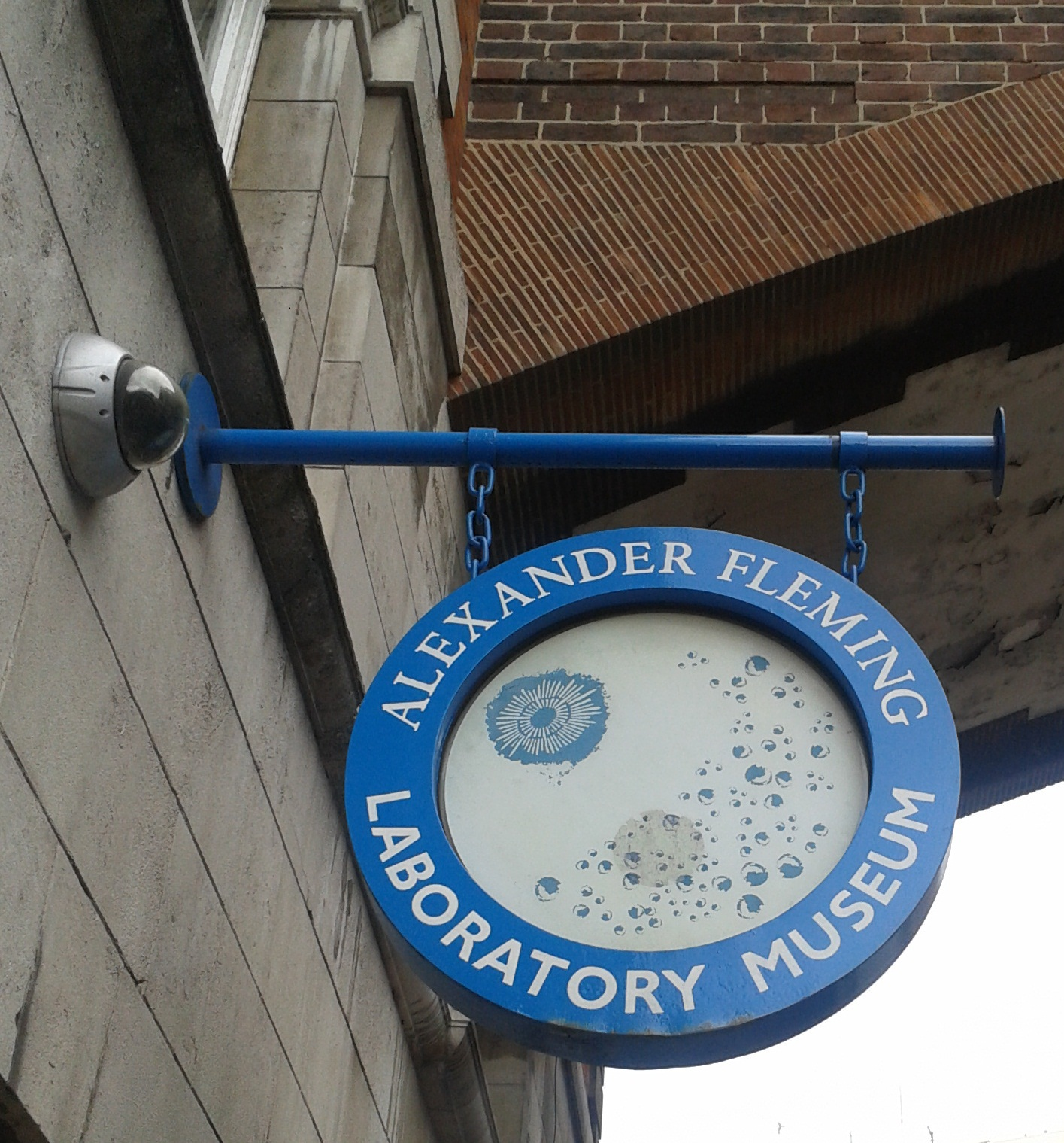 Clarence Memorial, St. Mary's Hospital, Praed Steet, W2 1NY, Paddington, London.